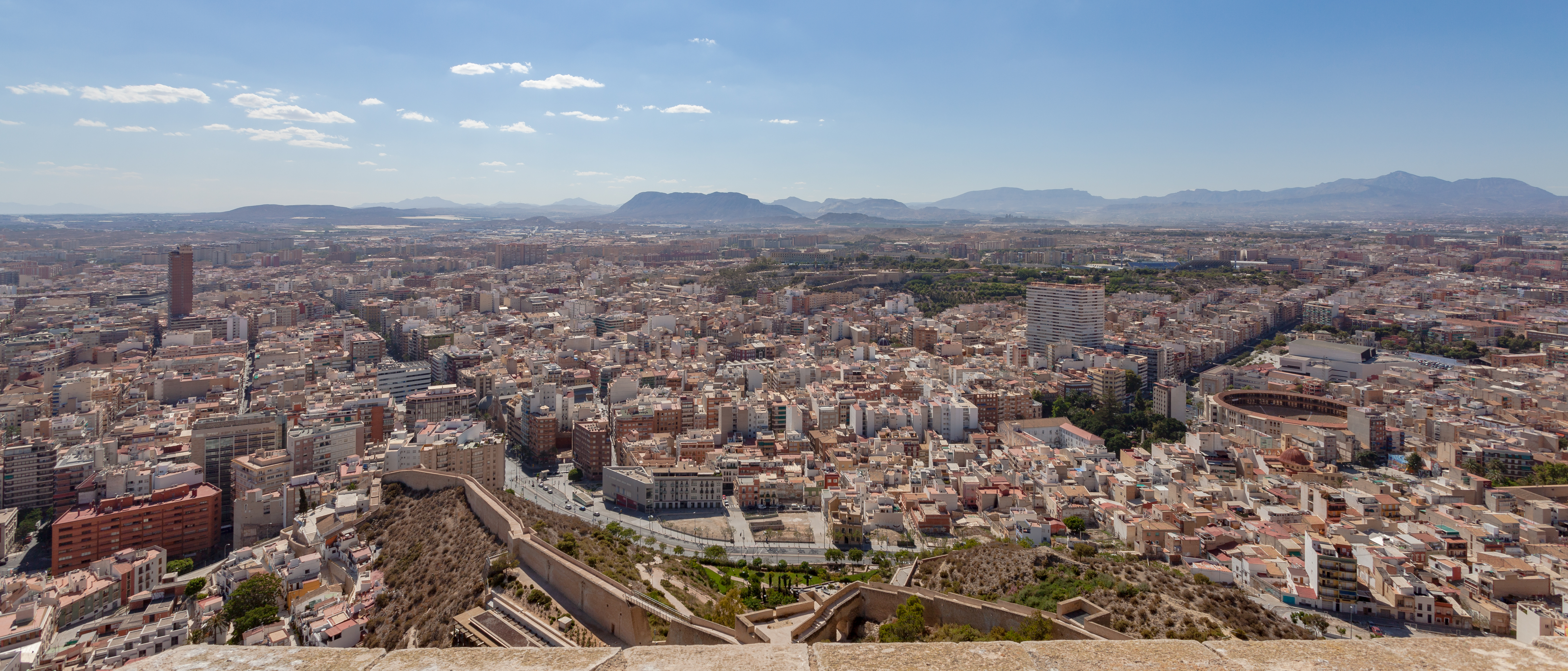 View of Alicante, Spain